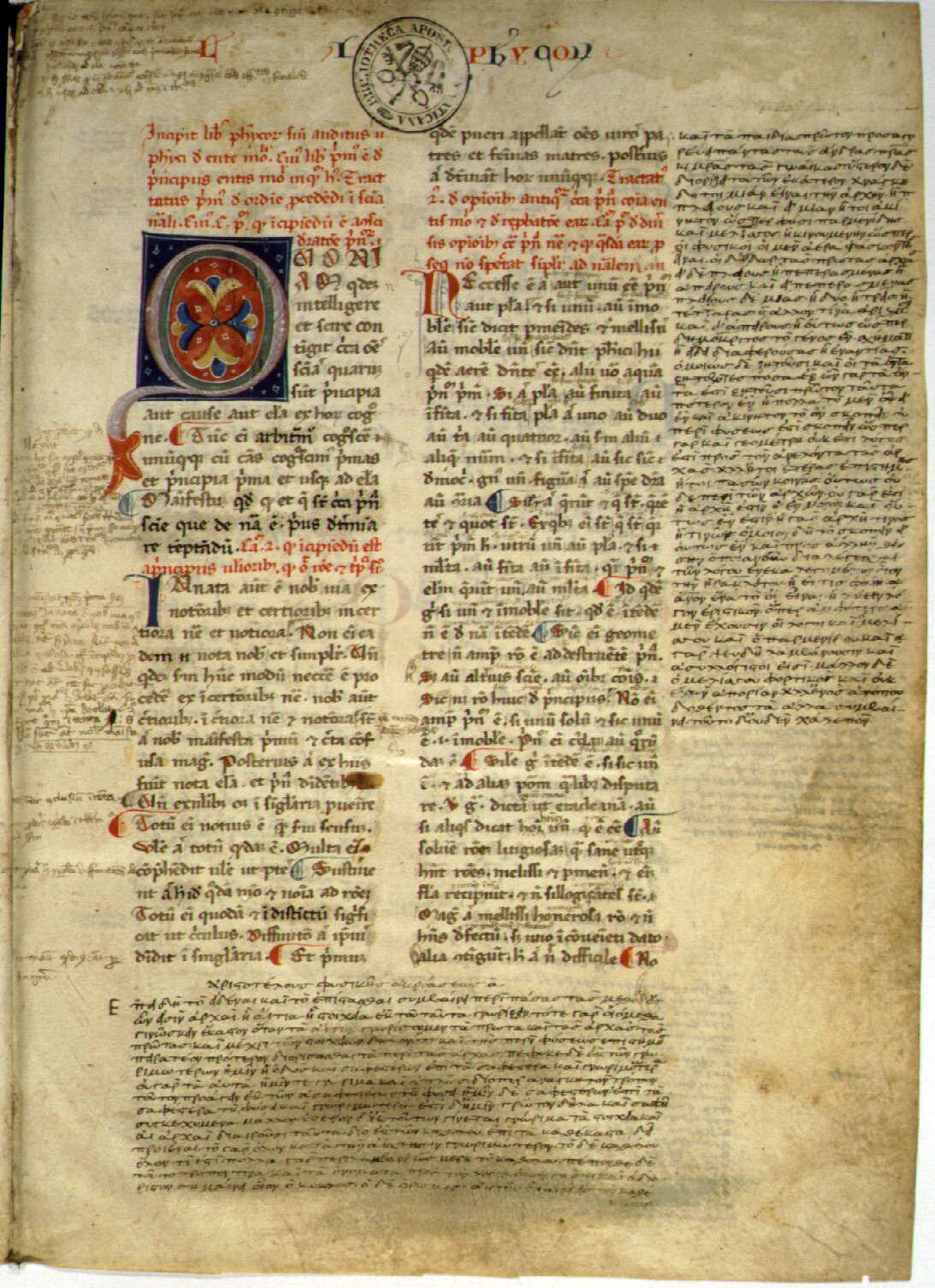 Aristotle, beginning of Physics. Medieval latin manuscript, original Greek text added in the margins. Hint: The manuscript belongs to the Bibliotheca Apostolica Vaticana (Vaticane, Rome); see the stamp.